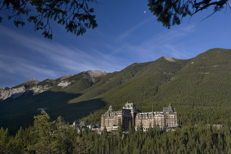 The Banff Springs Hotel is a large, Chateau-style hotel, built between 1911 and 1928. It is picturesquely situated at the foot of Sulphur Mountain in the town of Banff, within Banff National Park. The formal recognition consists of the building on its legal property at the time of recognition.